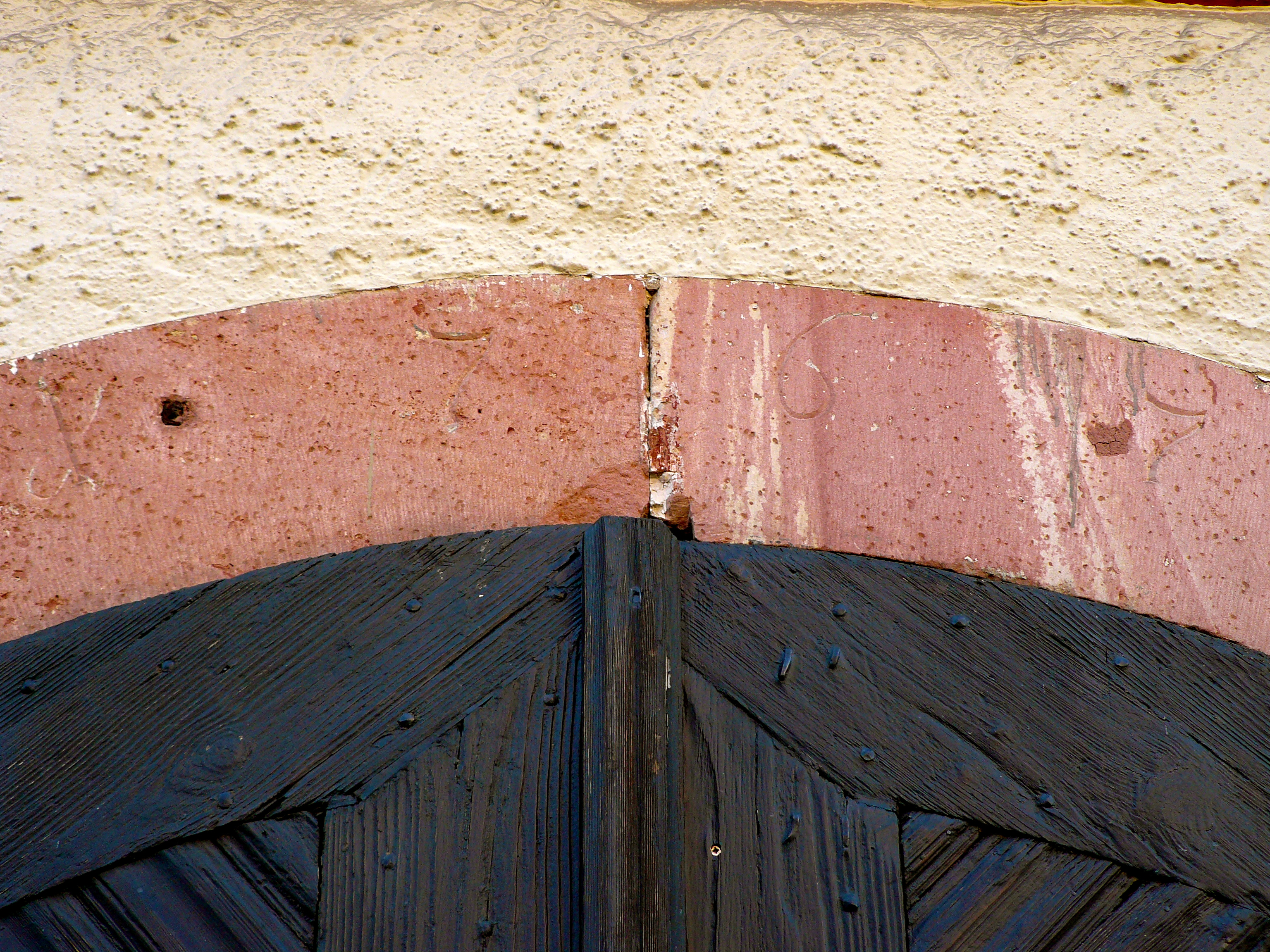 Renovation date 1767 above side entrance of old town hall of Seckbach (1542–1900), Frankfurt, Hesse, Germany